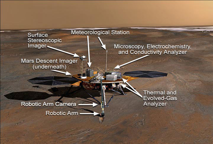 Labelled instruments on the Phoenix Mars lander.